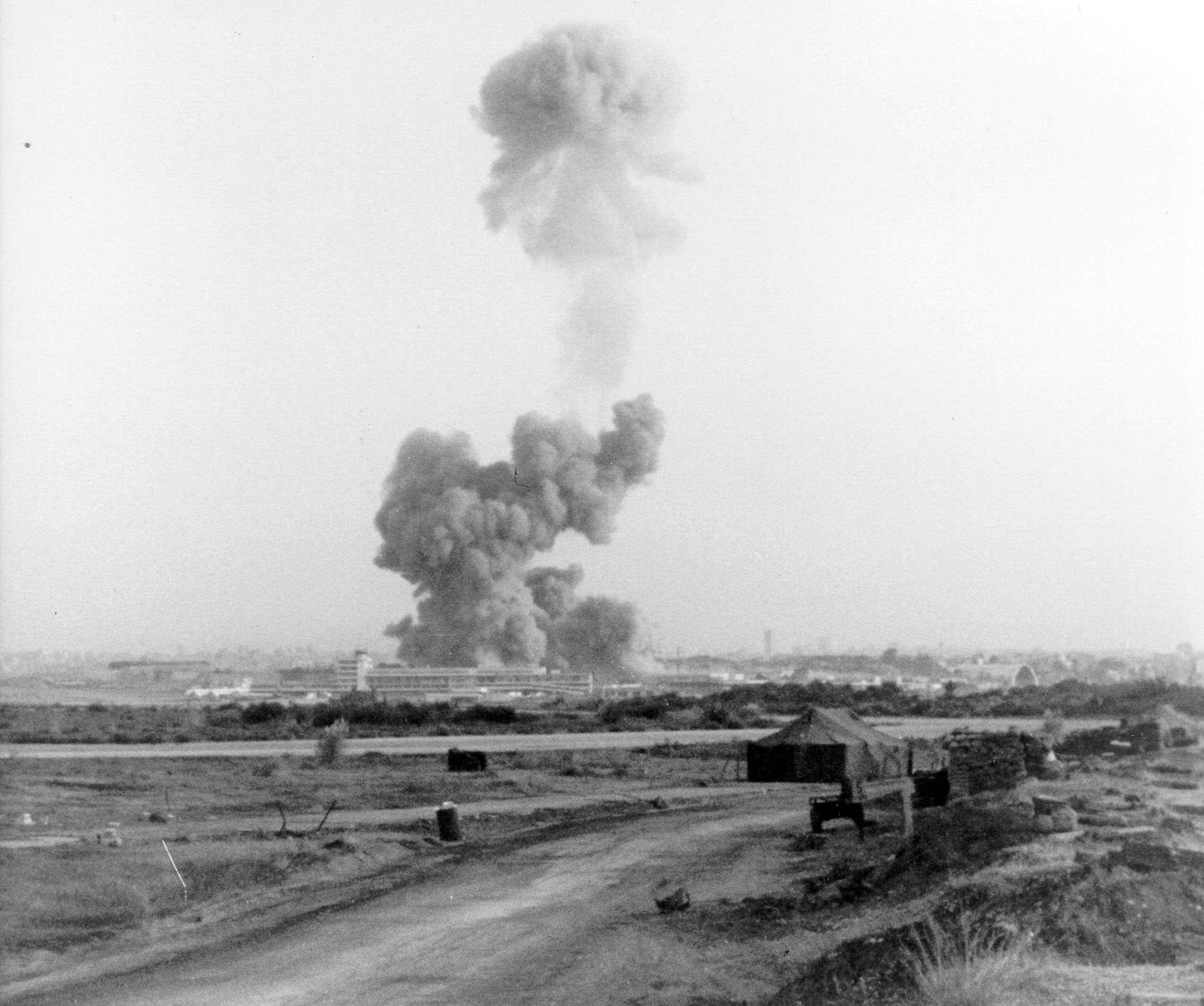 Caption: The explosion of the Marine Corps building in Beirut, Lebanon on October 23, 1983 created a large cloud of smoke that was visible from miles away. Photo by: Official USMC Photo PhotoID: 2001101810128 Submitted by: Headquarters Marine Corps Operation/Exercise/Event: Beirut This photo taken from which, since it is a US Marine Corps page, is public domain.